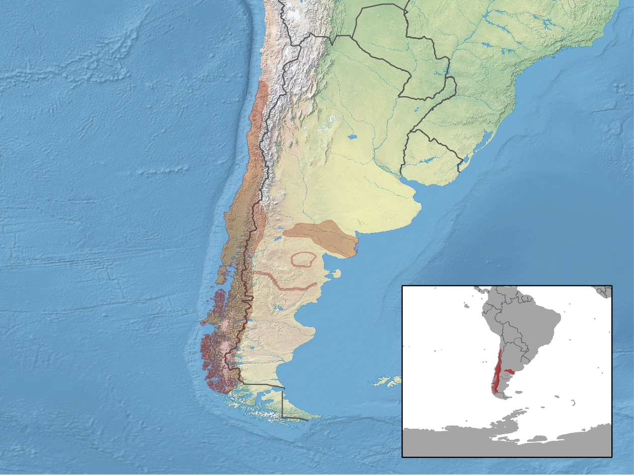 geographic distribution of Oligoryzomys longicaudatus